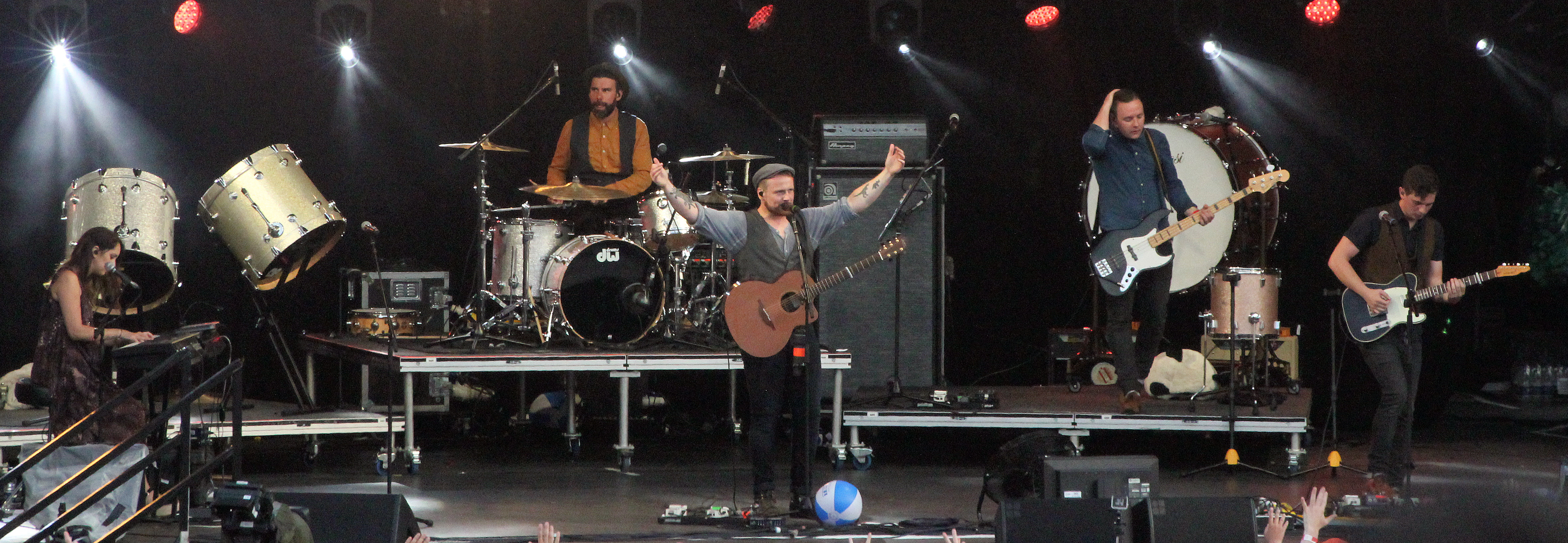 Rend Collective at Big Church Day Out, at Wiston House, West Sussex in May 2017